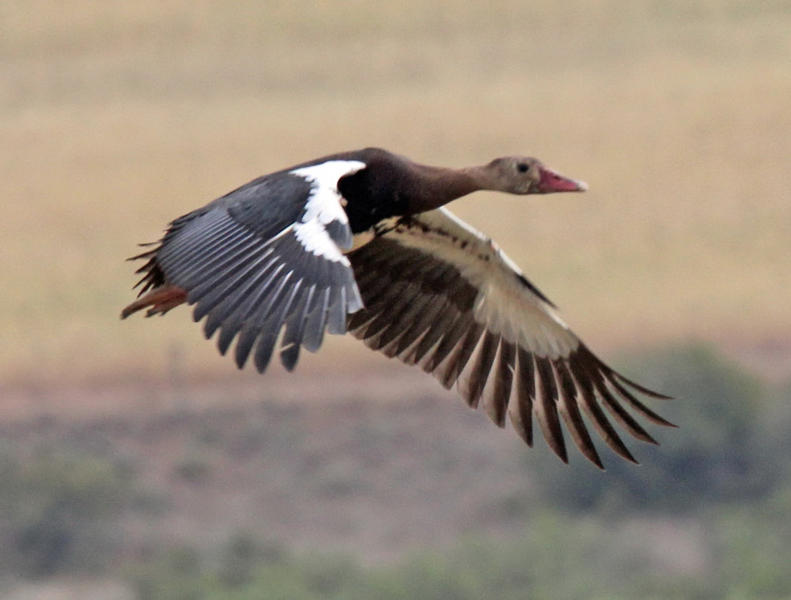 Spur-winged_Goose (Plectropterus gambensis) between Swellendam and De Hoop Nature Reserve, South Africa